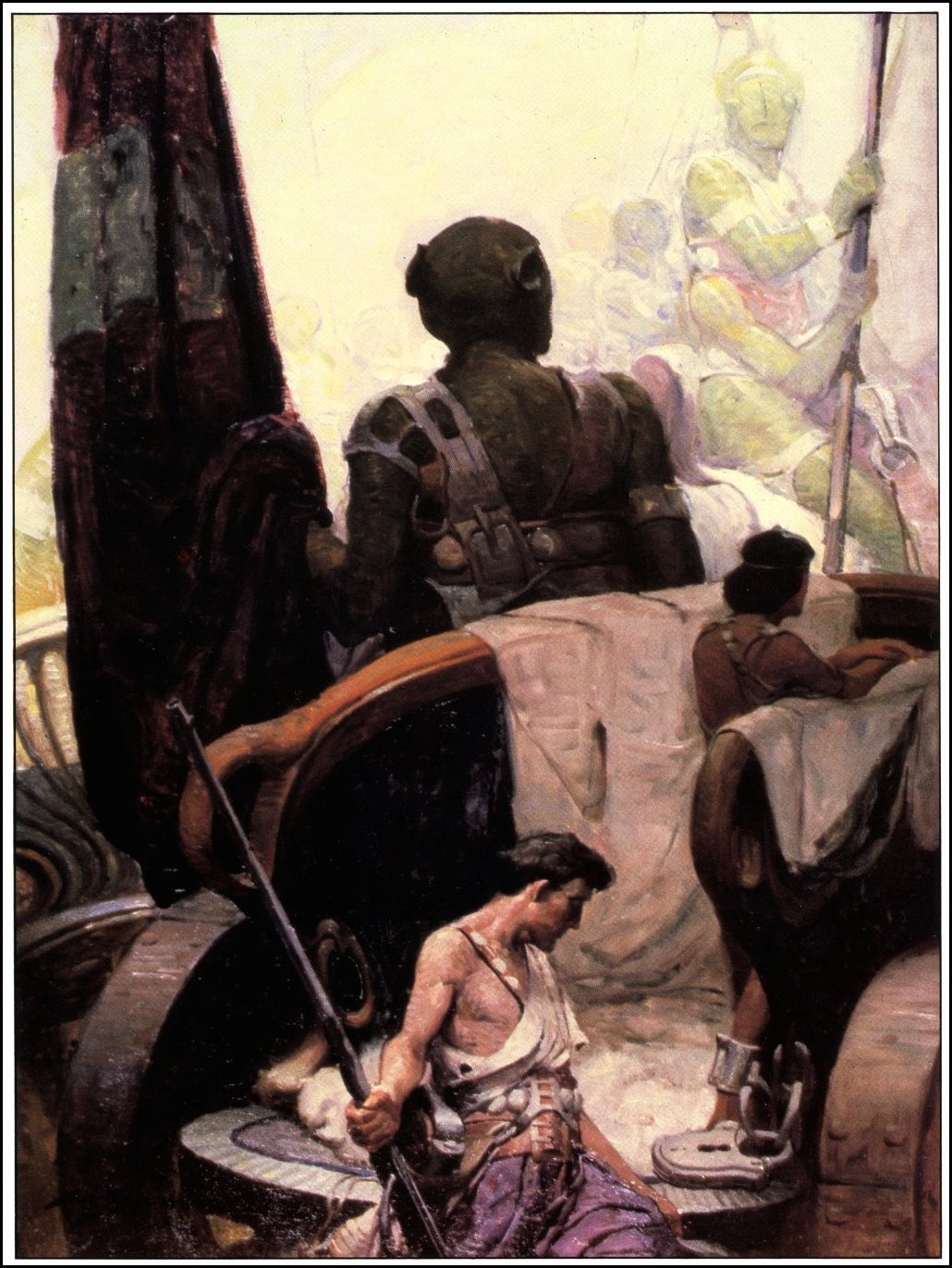 Illustration by Frank Schoonover, from the 1917 edition of A Princess of Mars by Edgar Rice Burroughs. Printed facing page 138. Caption: "I SOUGHT OUT DEJAH THORIS IN THE THRONG OF DEPARTING CHARIOTS."